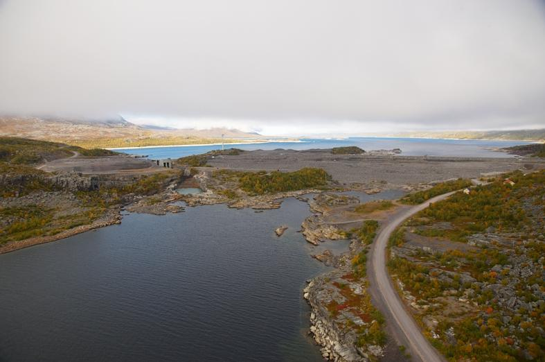 Kårtjejaure and the Suorva dam. Laponia world heritage area.